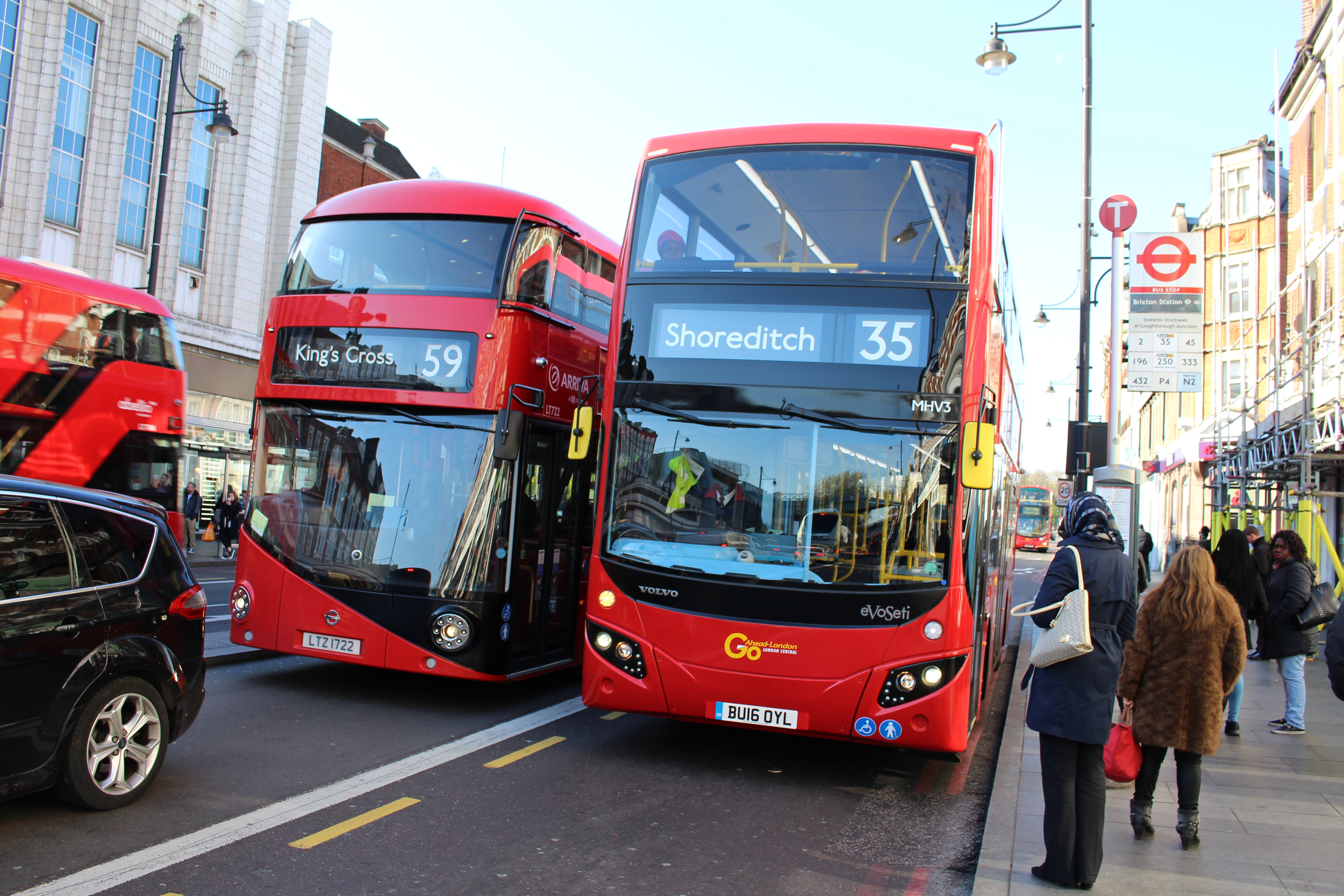 Arriva London LT722 (LTZ1722) on Route 59 passing London Central MHV3 (BU16 OYL) on Route 35, Brixton Station